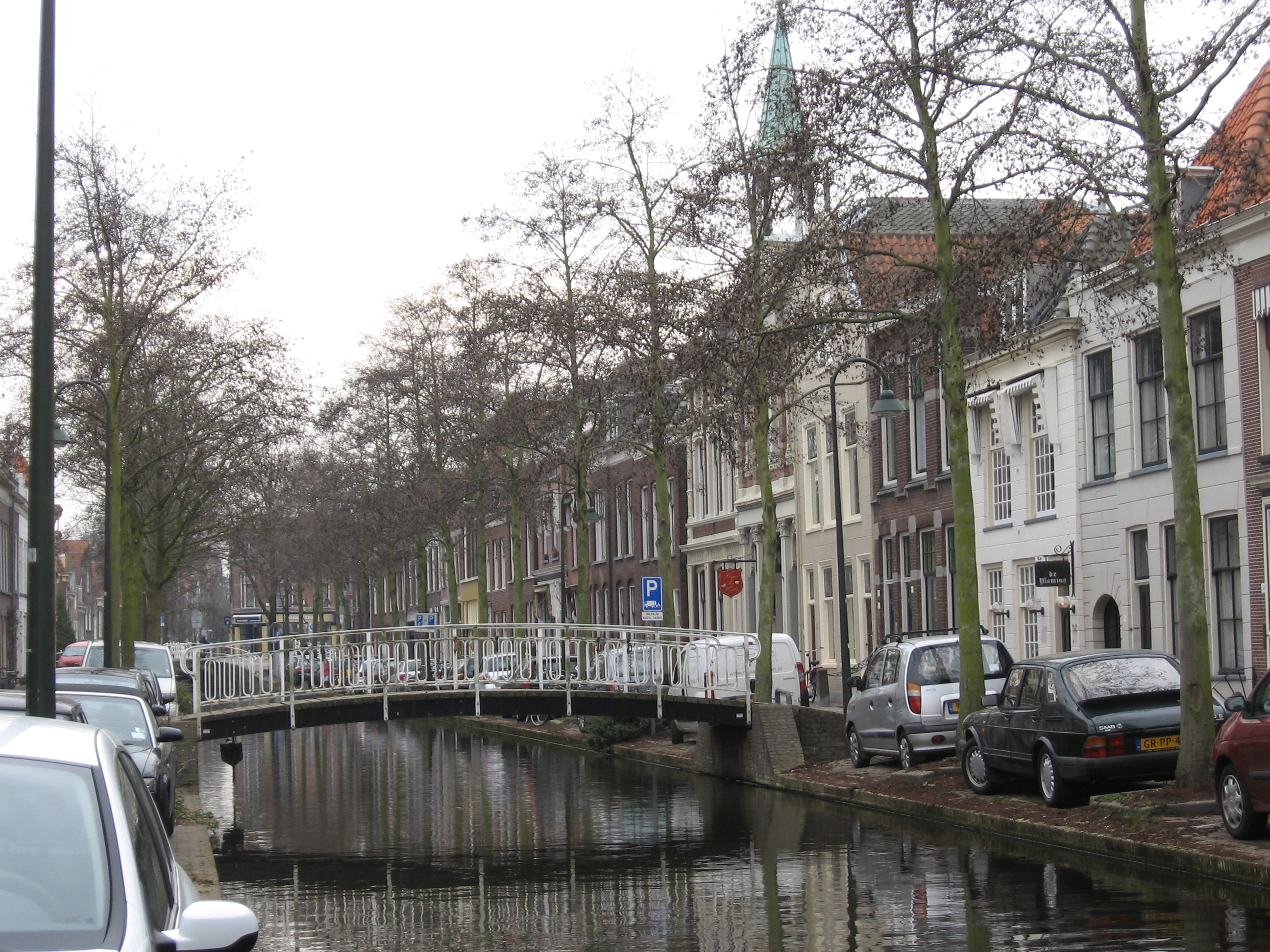 see comment below